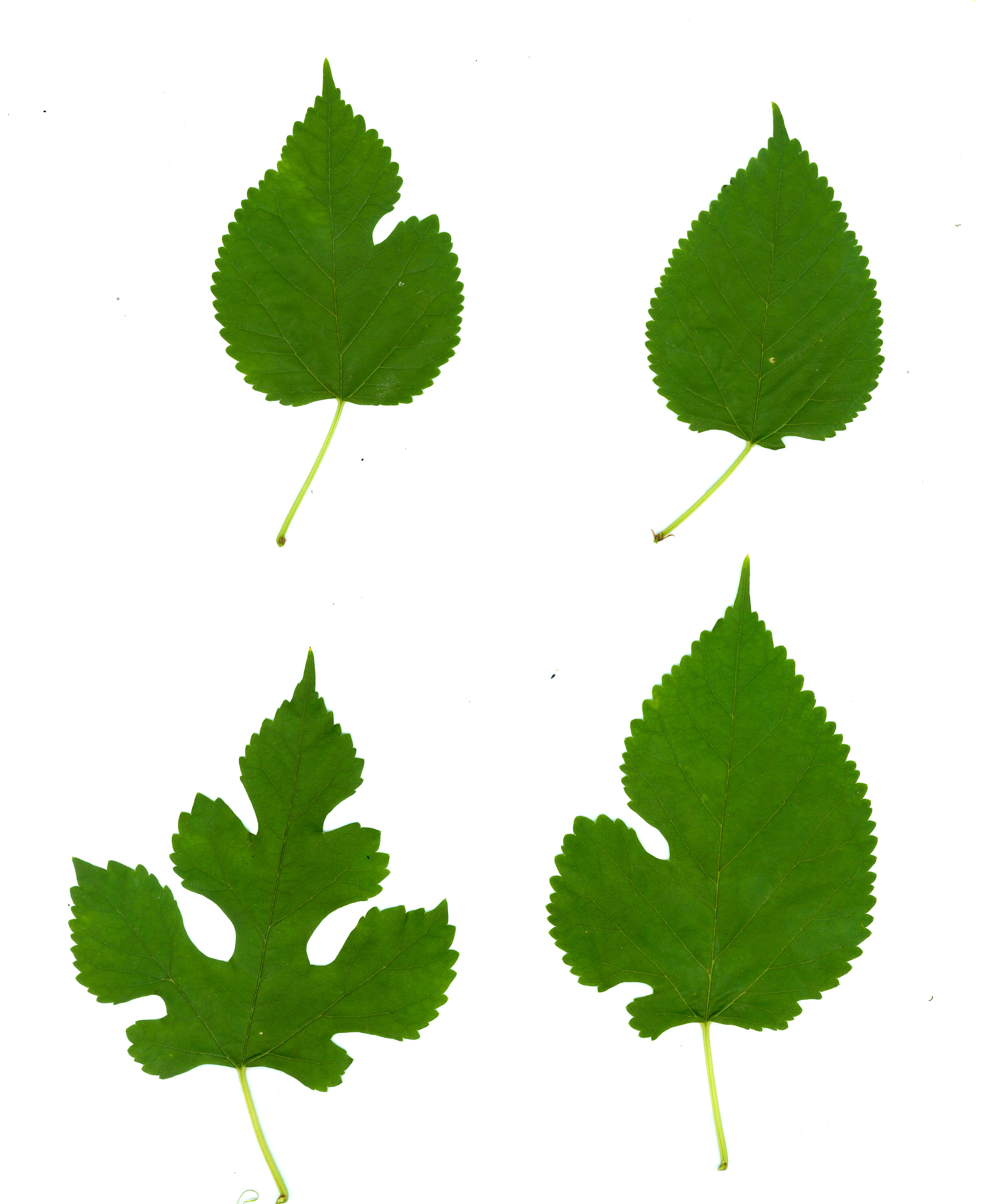 Scans of various leaf shapes of Morus alba